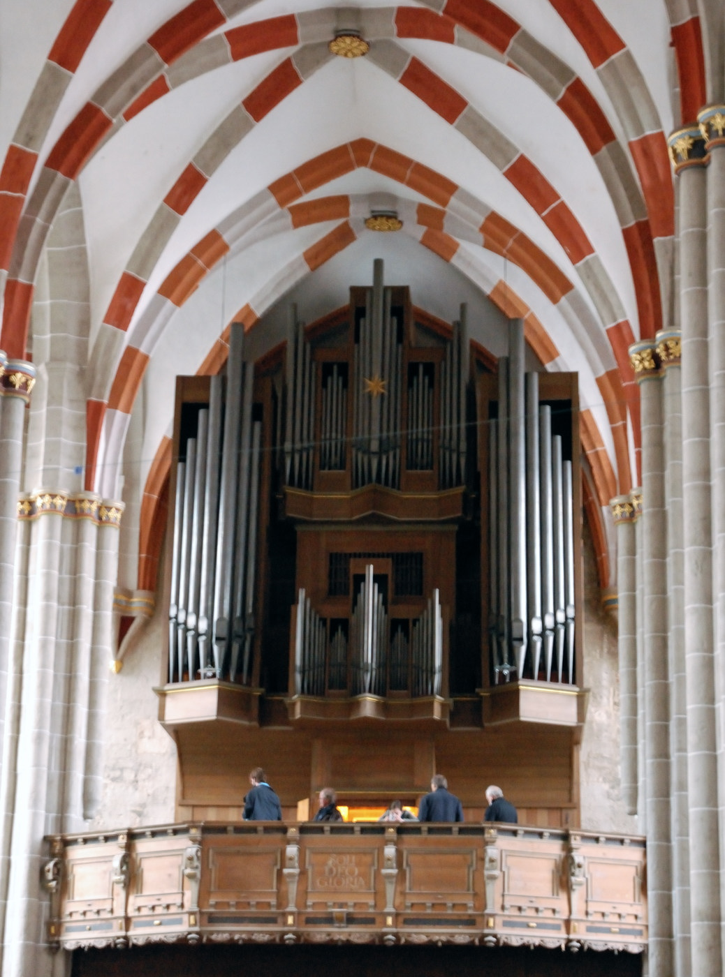 organ by Schuke from 1959 of Divi Blasii church in Mühlhausen/Thuringia, Germany